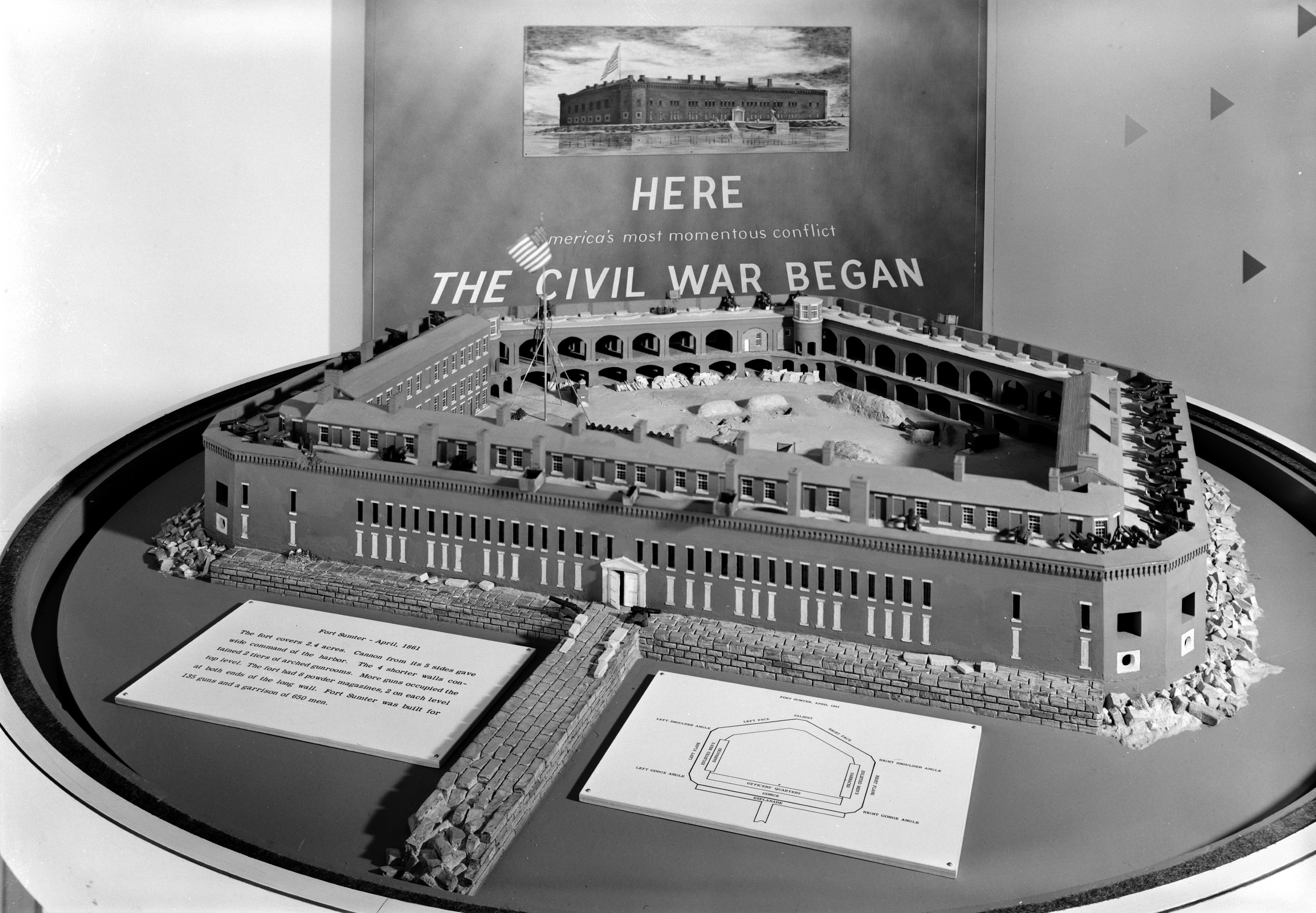 Model of Fort Sumter, as it appeared in 1861 22. Historic American Buildings Survey, J.E. Boucher, Photographer February, 1963 SCALE MODEL AS OF APRIL, 1861. HABS SC,10-CHAR.V,3-22